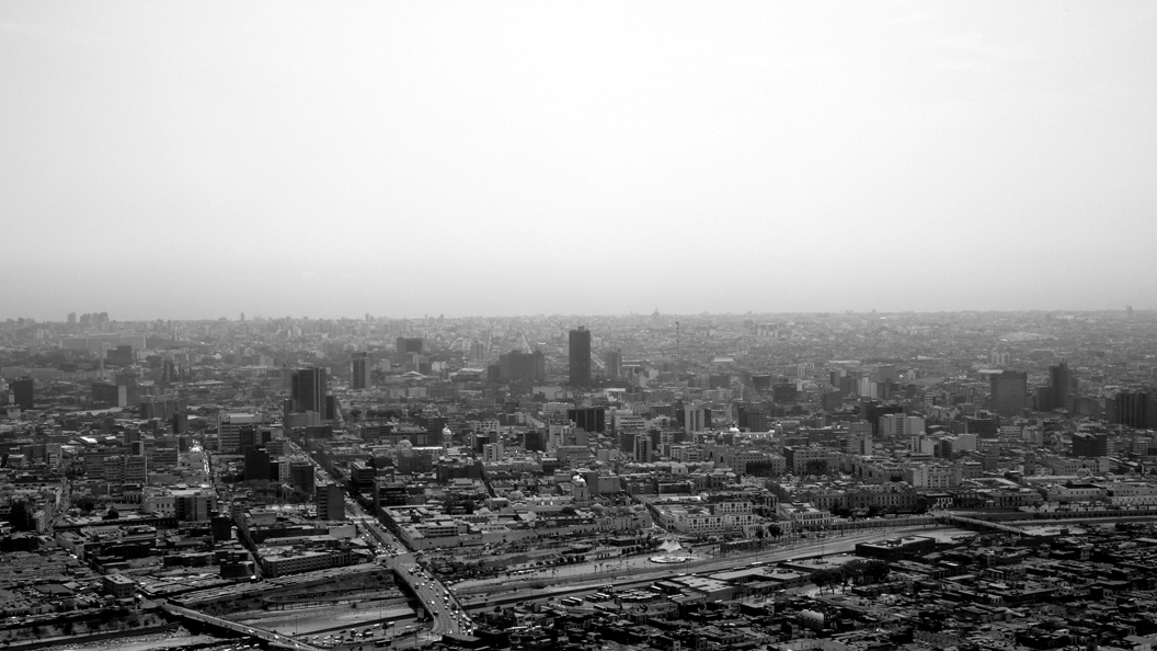 A view on Lima from Cerro San Cristobal.